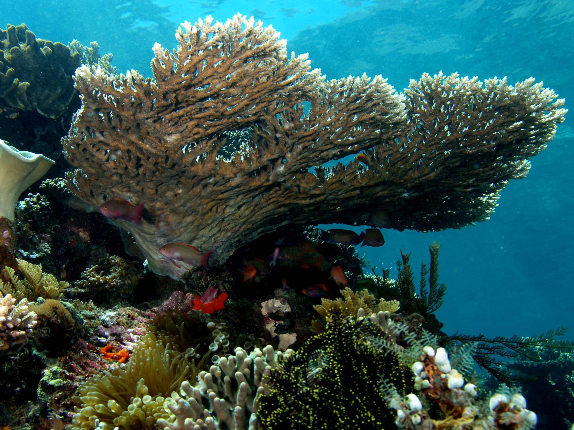 Acropora latistella (Table coral)